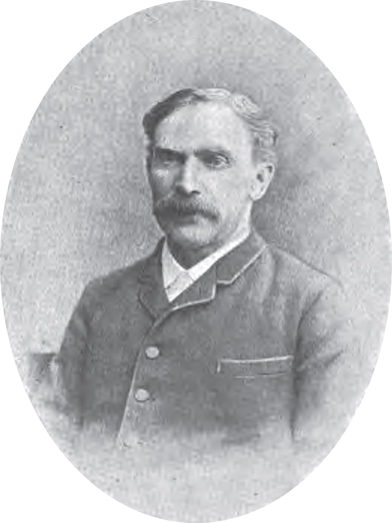 Hestia (1876) Author: Diomedes, Paulos Subject: Greek literature, Modern; Greek periodicals Publisher: Athēnēsi : s.n. Year: 1894 Possible copyright status: NOT_IN_COPYRIGHT Language: Greek Digitizing sponsor: Google Book from the collections of: Harvard University Collection: americana